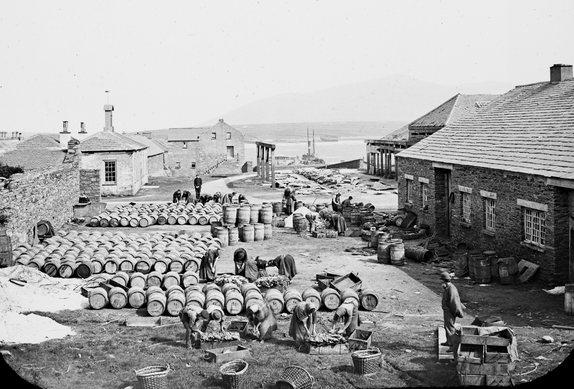 On a visit to the collection of the esteemed Mr. Mason today with a pong of fish hanging over all! This old lantern slide shows a scene of great industry with lots of barrels and busy people under the watchful eye of the aptly titled overseer! Photographer: Thomas H. Mason Collection: Mason Photographic Collection Date: ca. 1890-1910 NLI Ref: M56/60 You can also view this image, and many thousands of others, on the NLI’s catalogue at